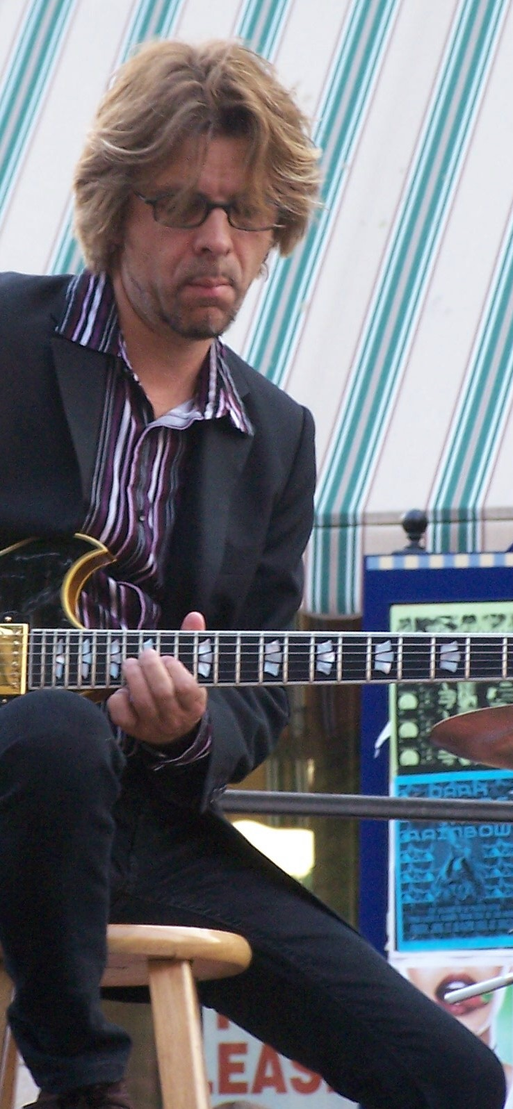 Johnny A. playing at the Twilight Festival on June 14, 2007.